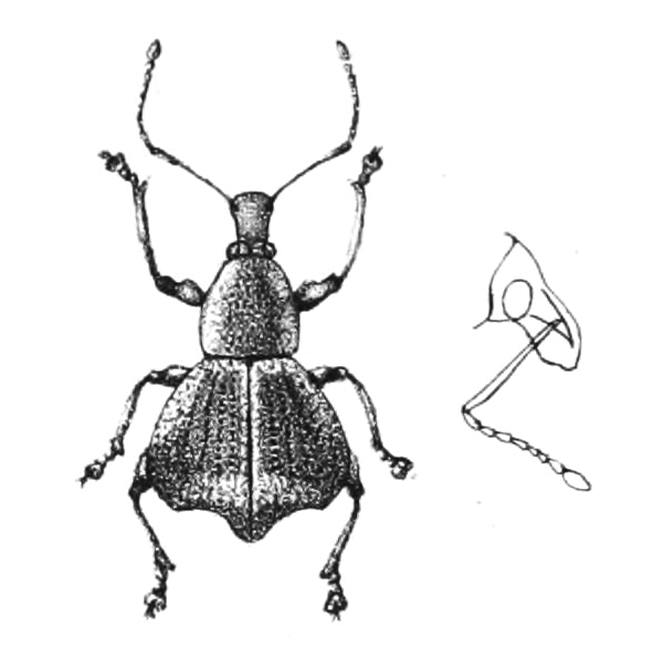 Apirocalus gestroi